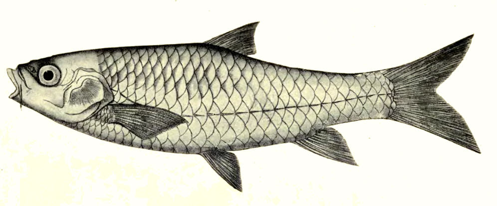 Barbus tor = Tor tor (Hamilton, 1822) from the Western Ghats